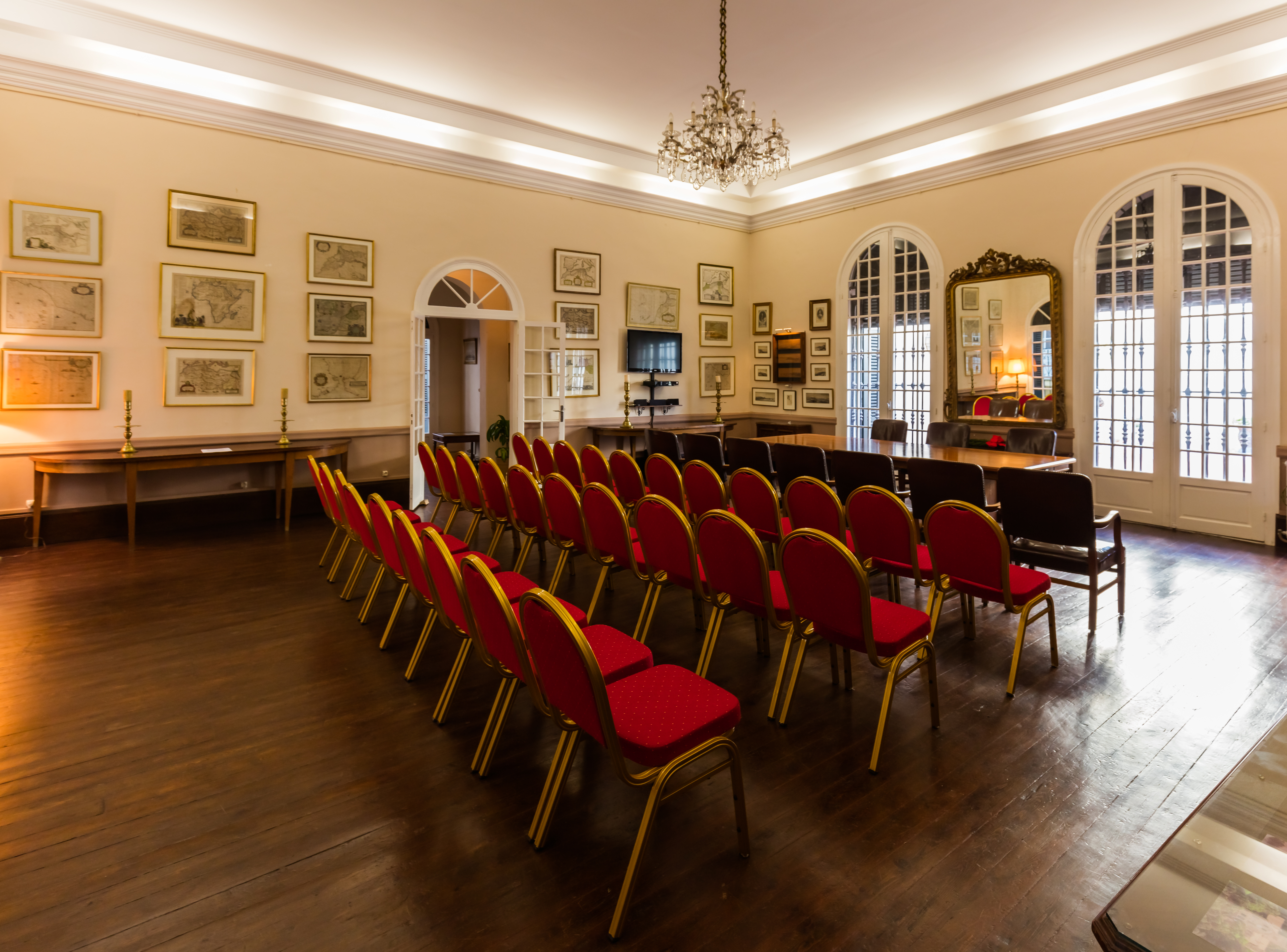 Old American Legation Museum, Tangier, Morocco